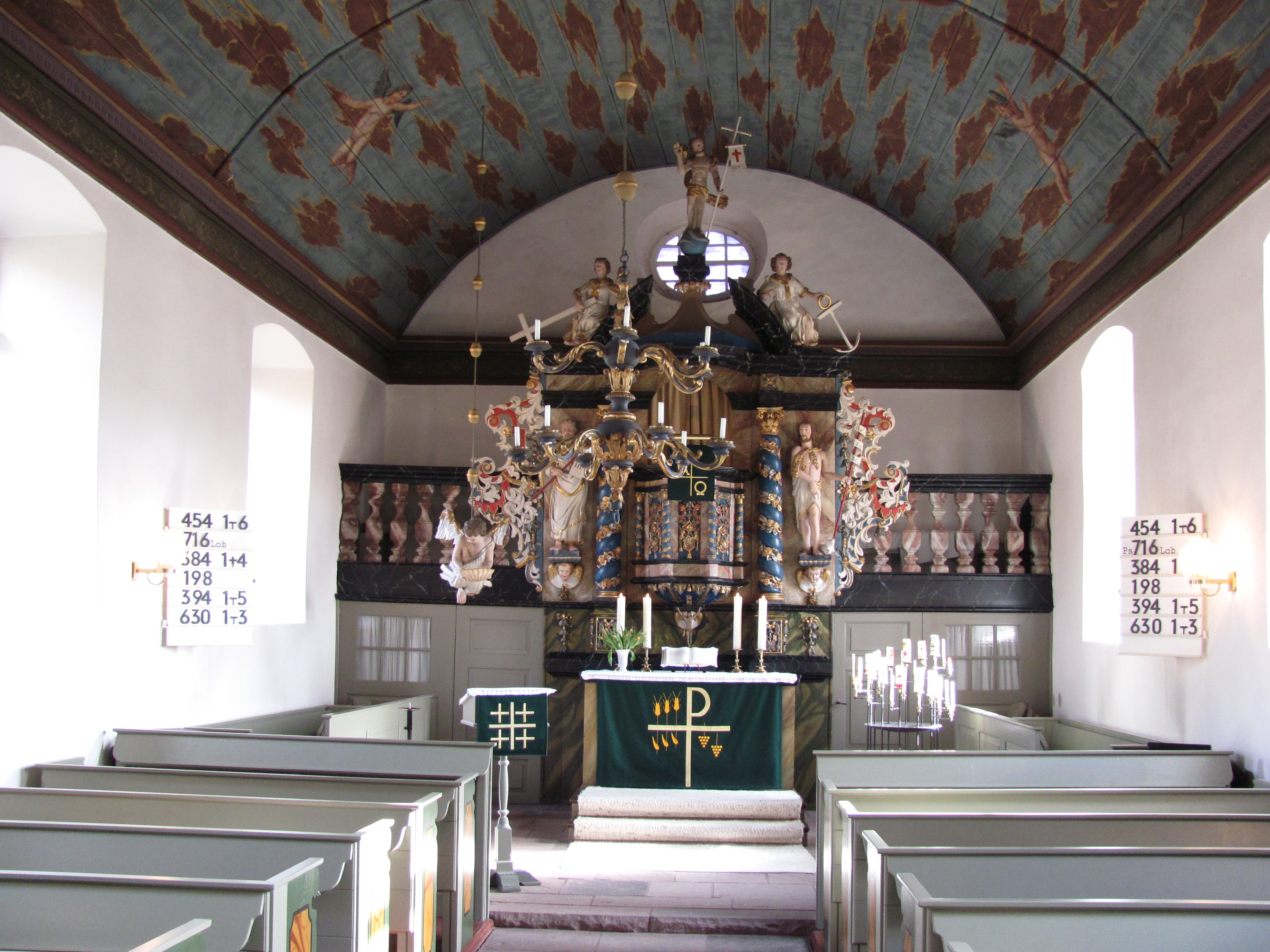 St. Paul's Protestant Church, Holle-Hackenstedt, Lower Saxony, Germany.